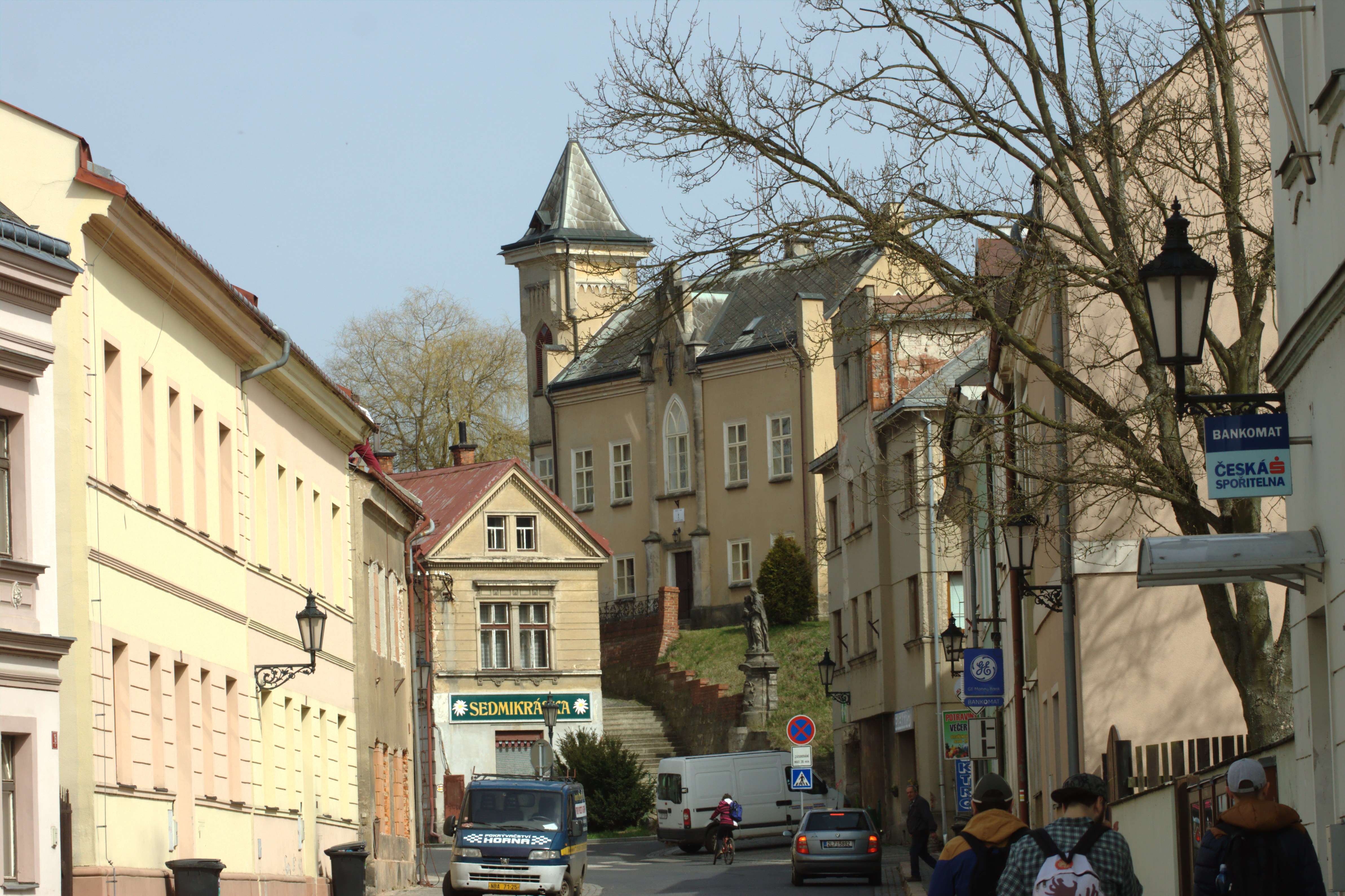 Řídícího učitele Havla Street in Český Dub, Liberec Region, CZ